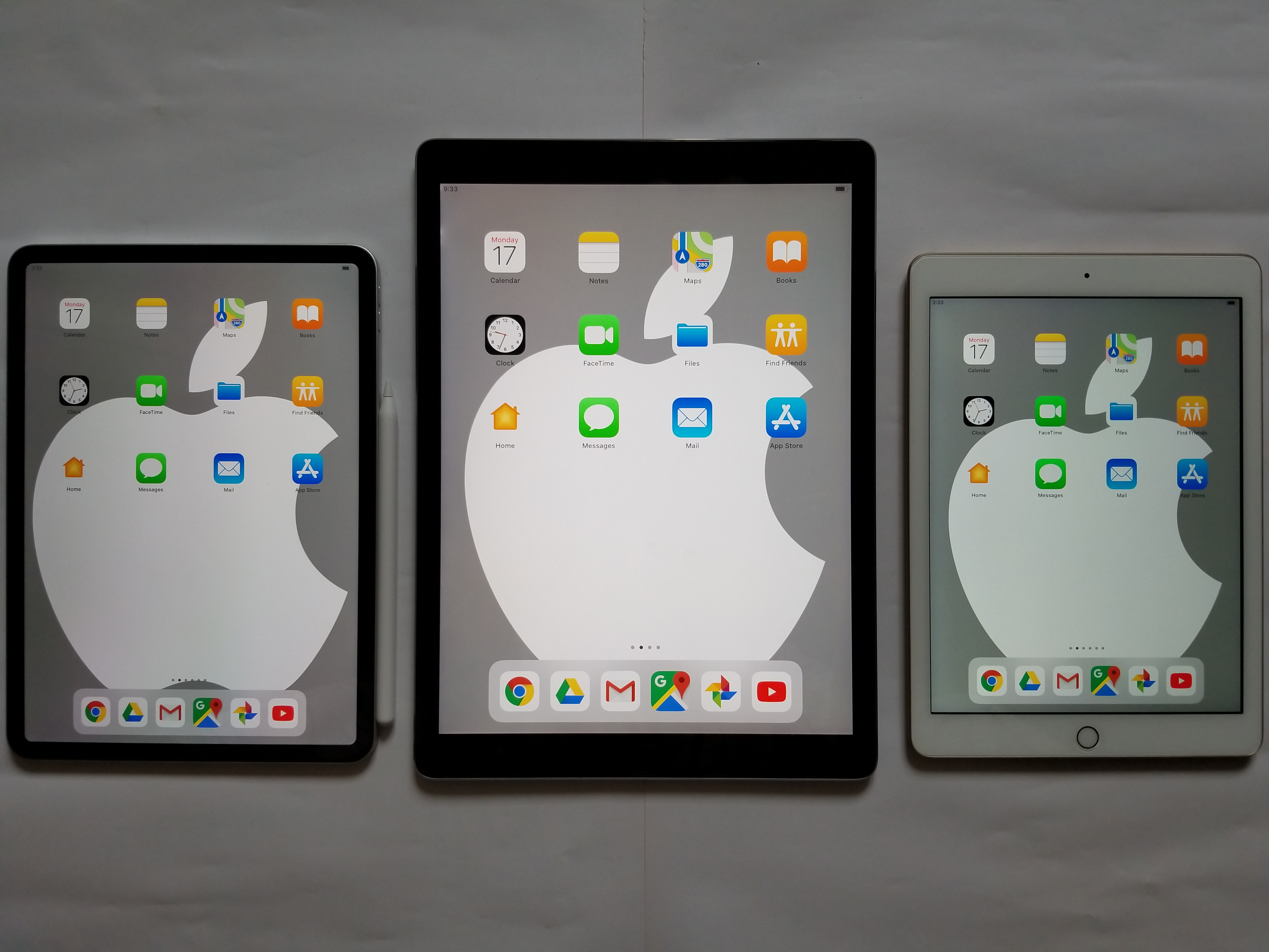 iPad Pro 11″ (silver) iPad Pro 12.9″ (space gray) iPad 9.7″ (gold)